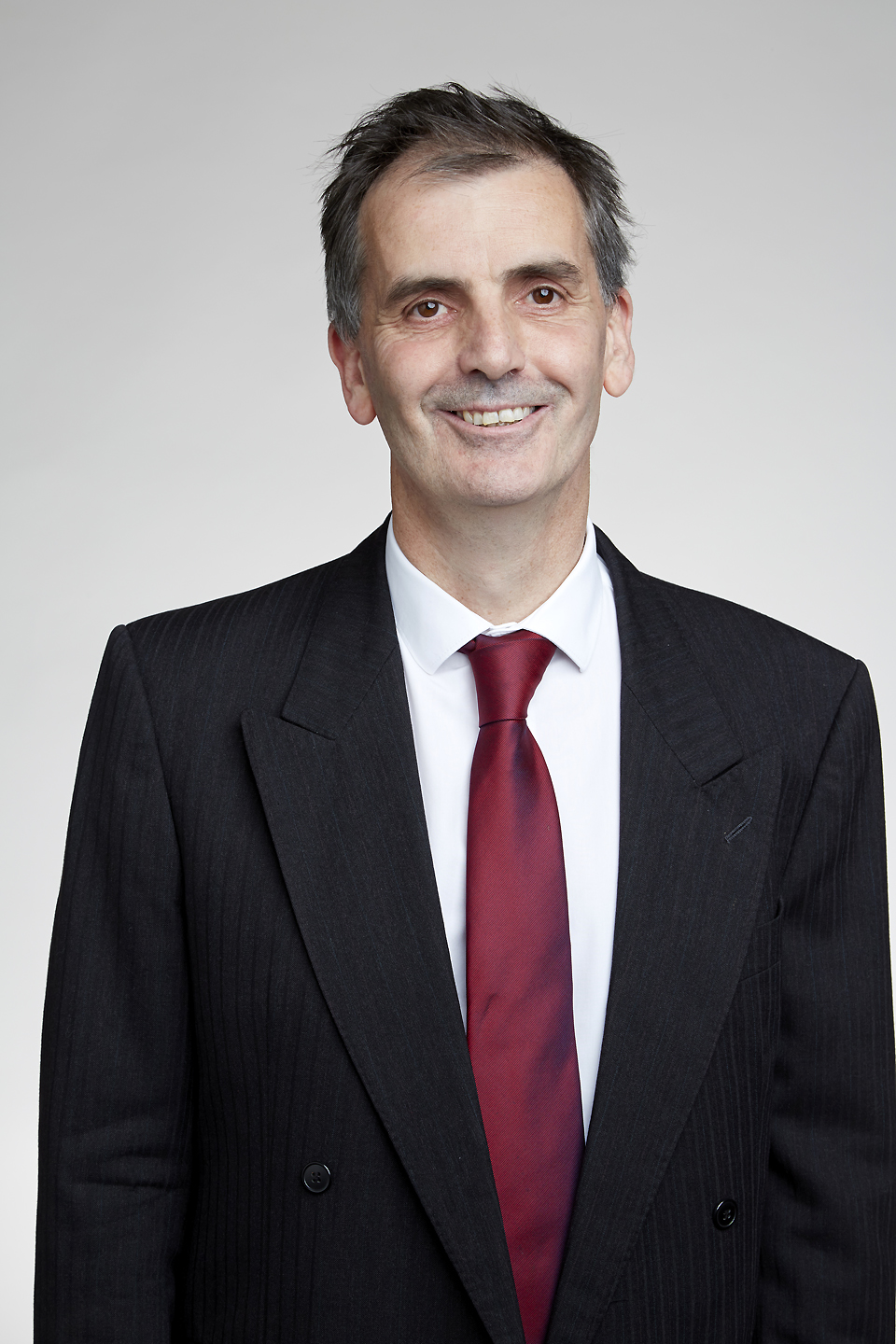 James Scott Dunlop FRS FRSE FInstP is a Professor of Extragalactic Astronomy and Head of the Institute for Astronomy (IfA), an institute within the School of Physics and Astronomy at the University of Edinburgh. Attribution: The Royal Society